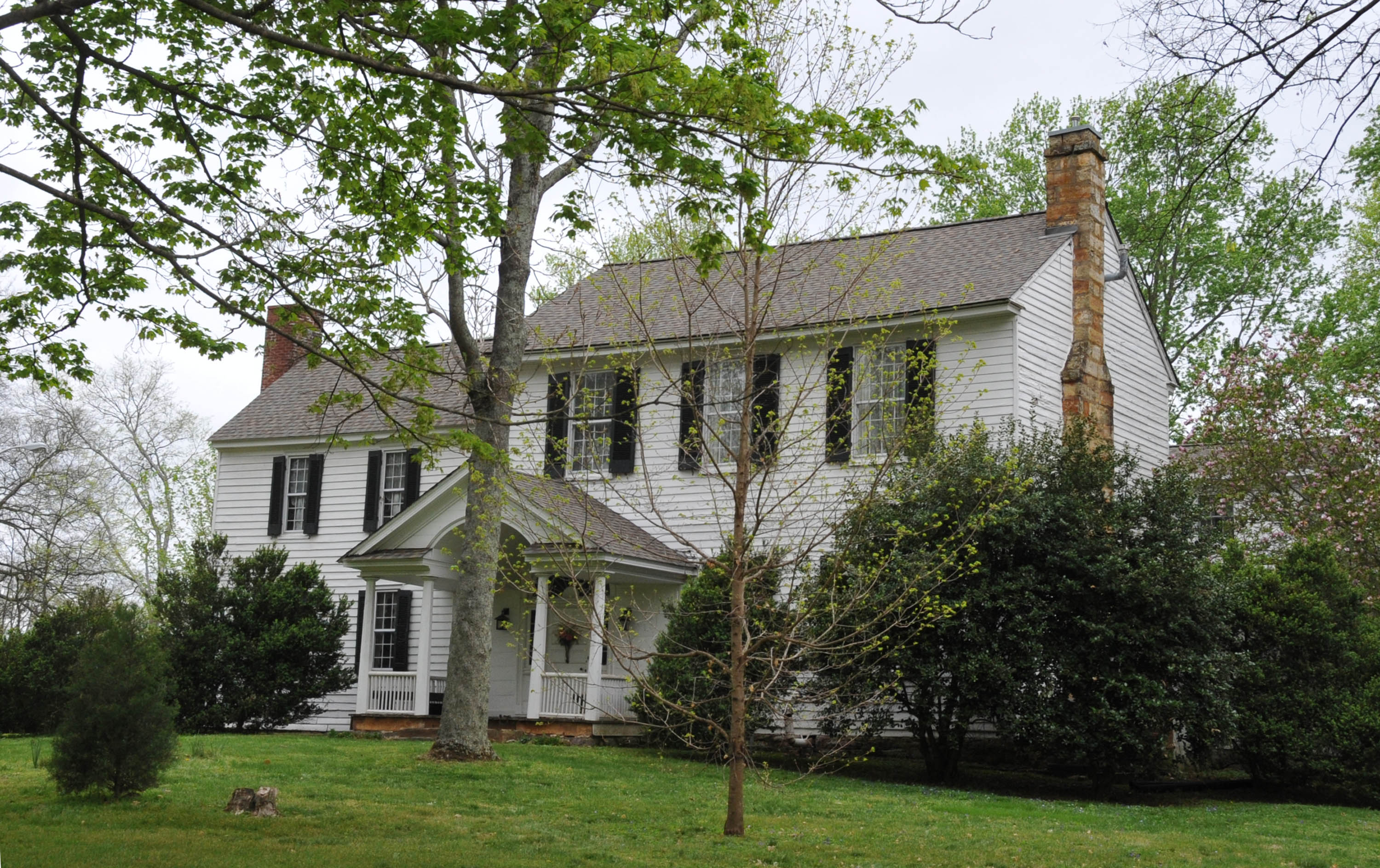 ORIGINAL LOG PART OF THIS HOUSE WAS BUILT CIRCA 1818 BY ABRAM DEMOSS. IN TIME THE NASHVILLE AND NORTHWESTERN RAILROAD DEPOT WAS BUILT AND THE TOWN TOOK THE NAME OF BELLEVUE FROM THIS HOUSE